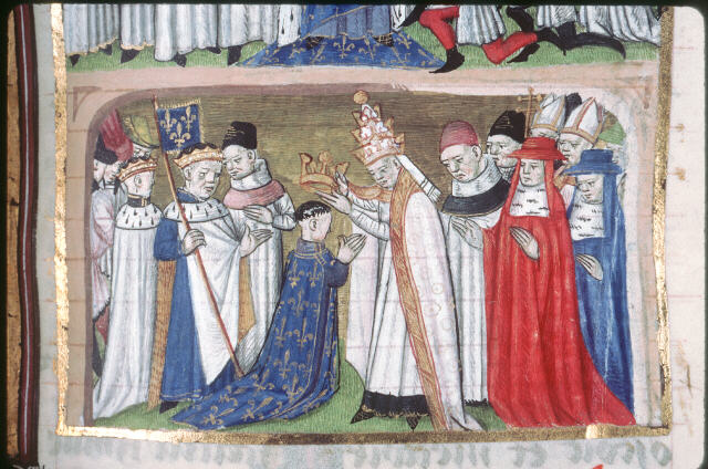 Coronation of Louis the Pious as king of Aquitane by pope Hadrianus I. Miniature from "Grandes Chroniques de France", made for Charles d'Anjou.